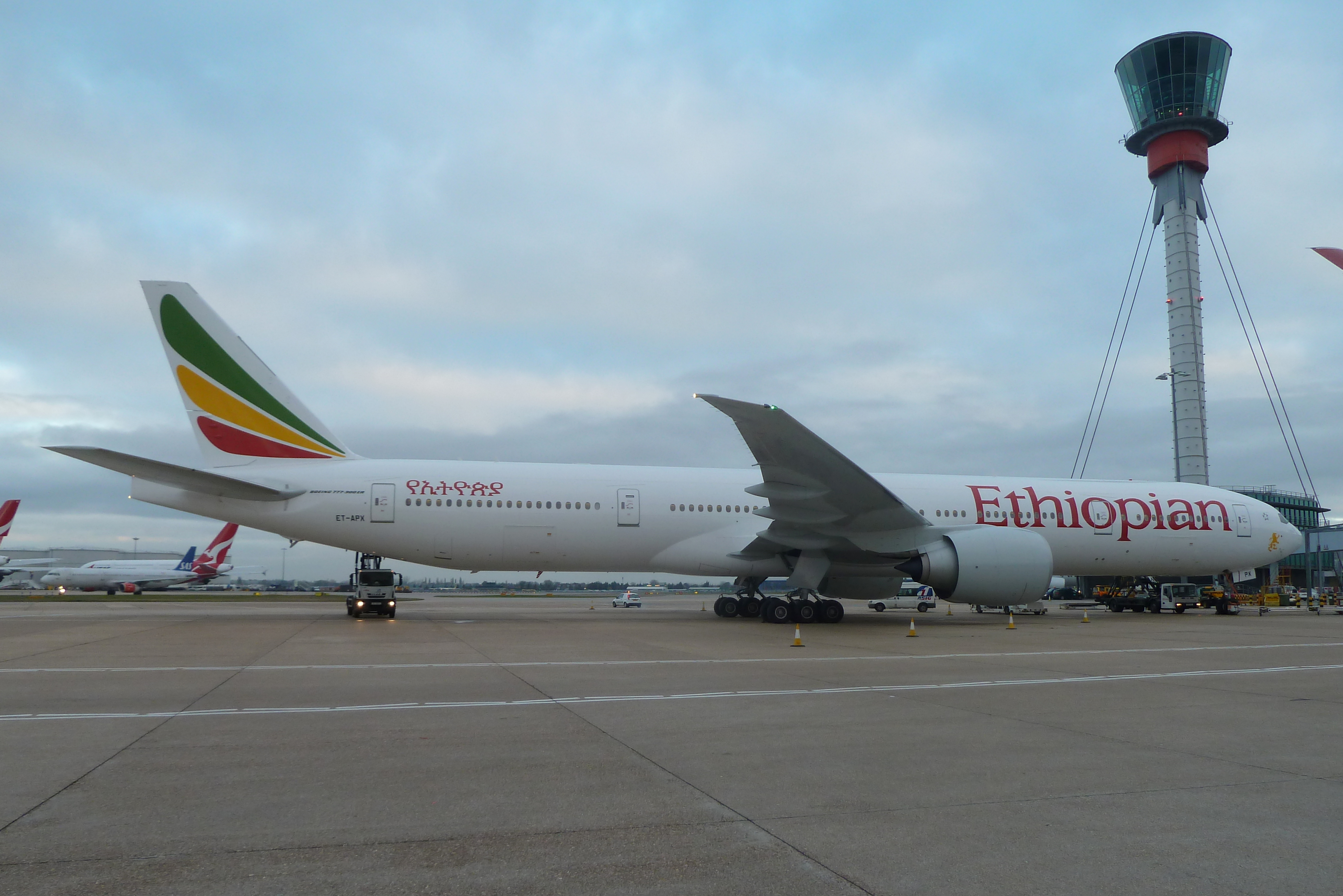 ET-APX B777-300ER Ethopian Airlines on std 363 during its first visit.